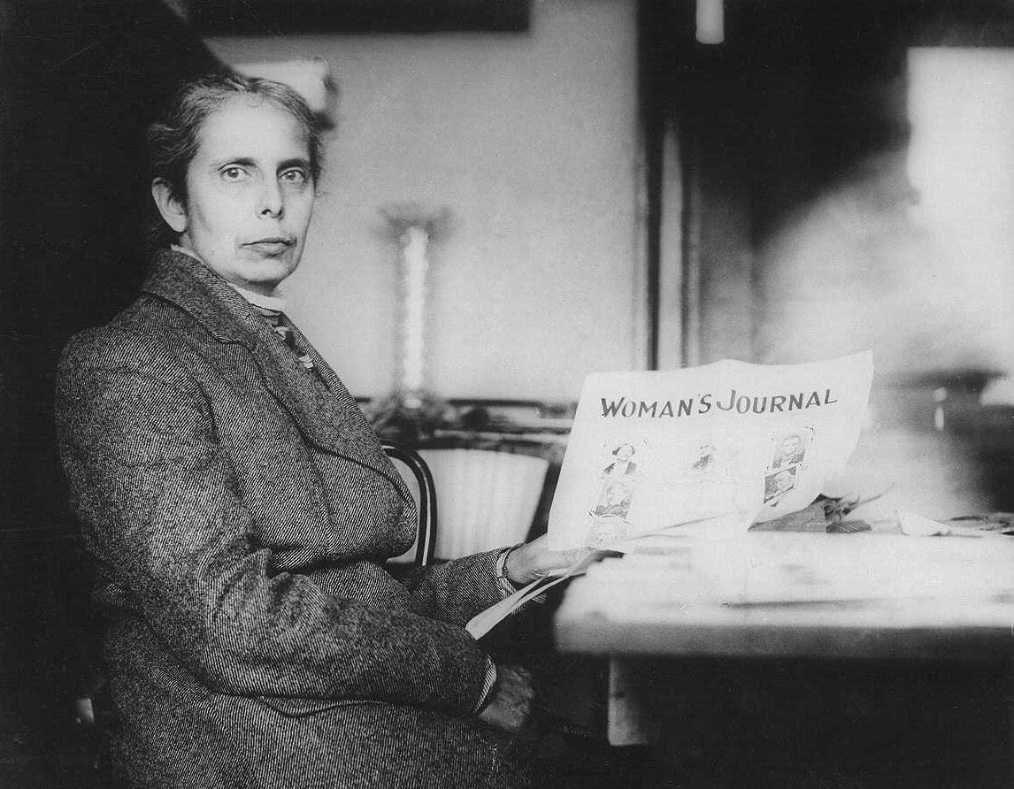 Alice Stone Blackwell and suffragist newspaper